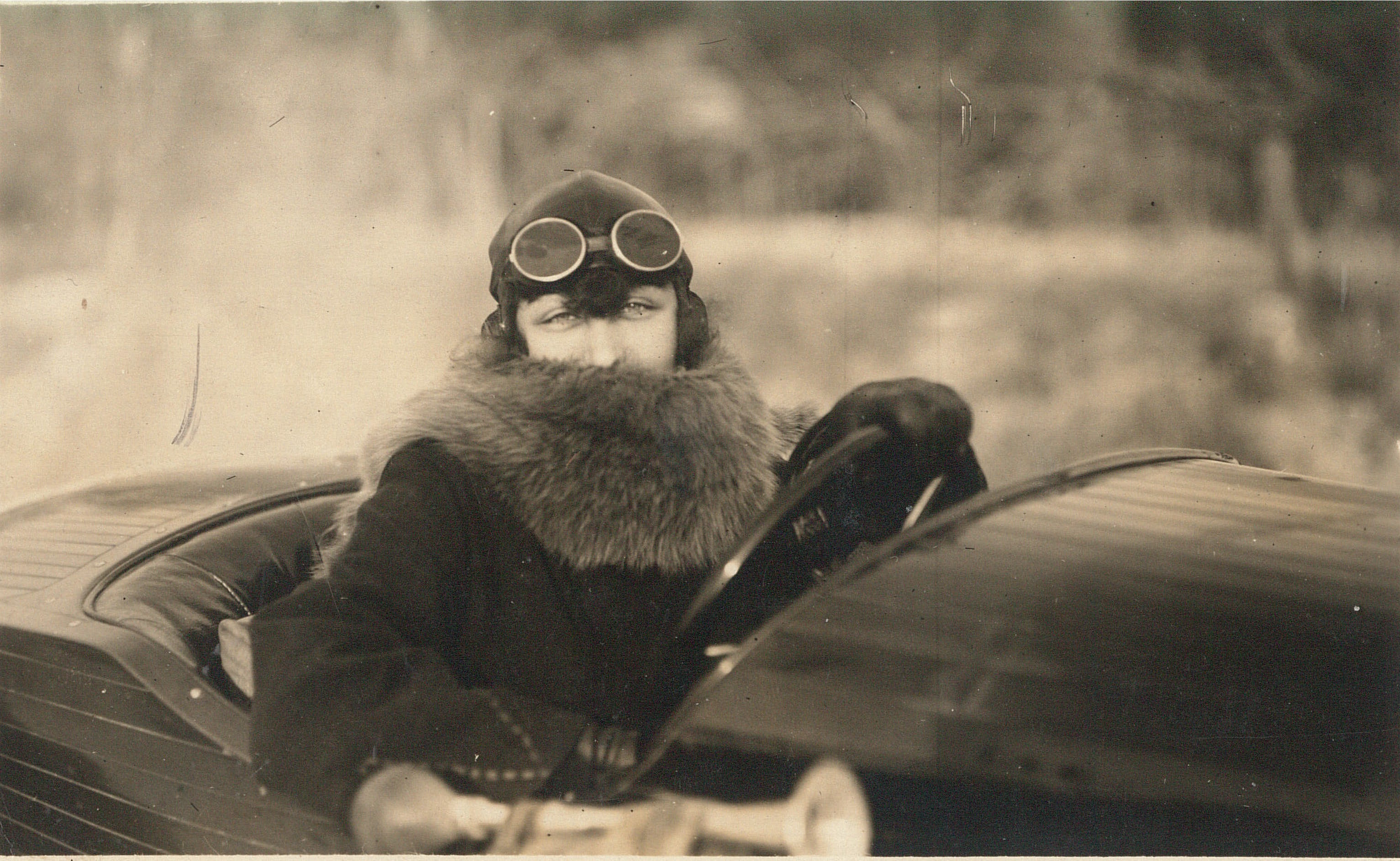 Claire Mancis on Amilcar during the hill race Allauch (13) January 28, 1923.